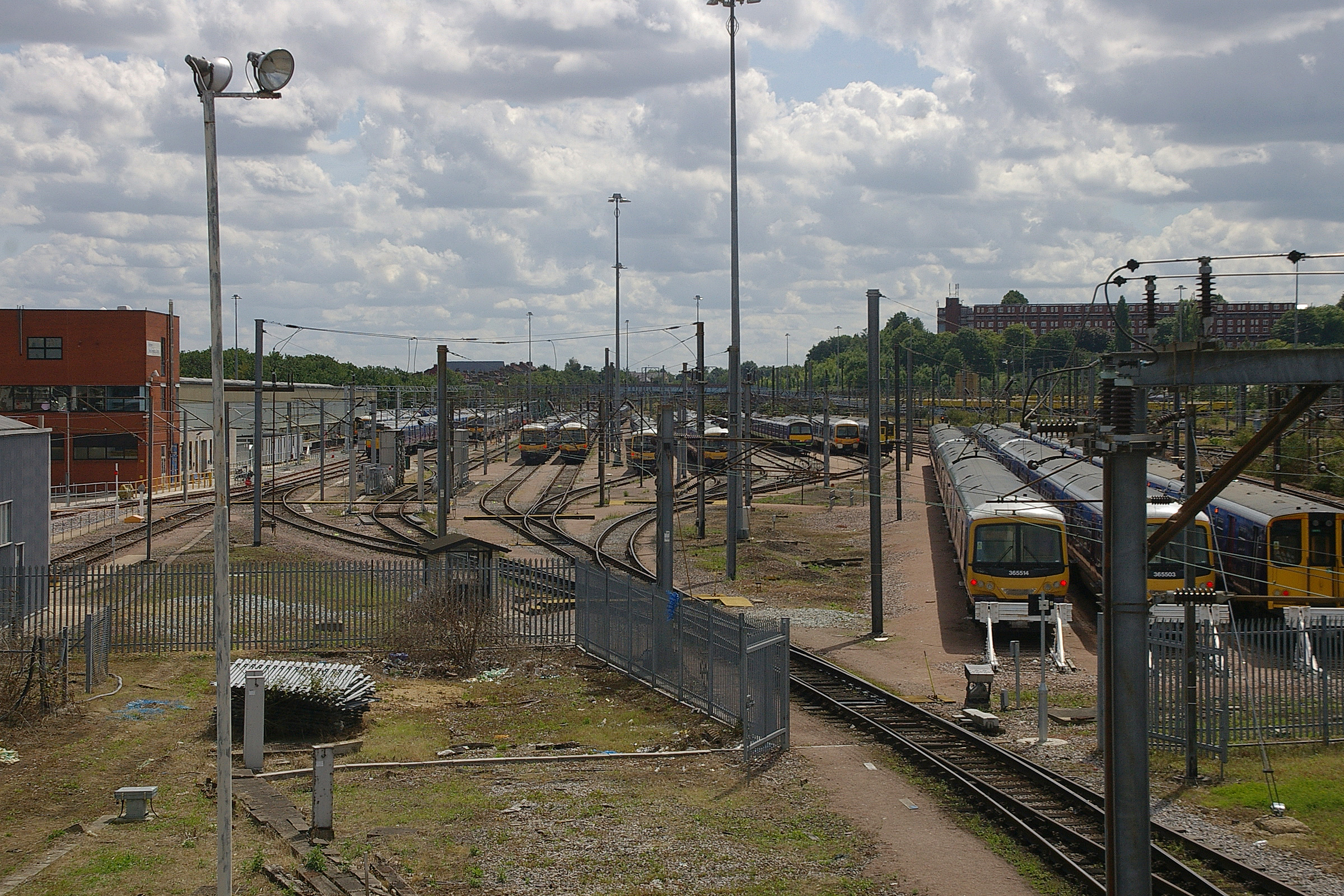 Hornsey TMD on the East Coast Main line, viewed from the footbridge over the ECML.